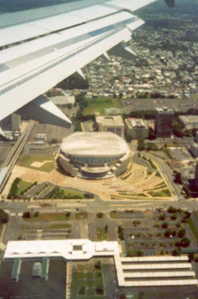 Aerial view of the José Miguel Agrelot Coliseum in San Juan, Puerto Rico